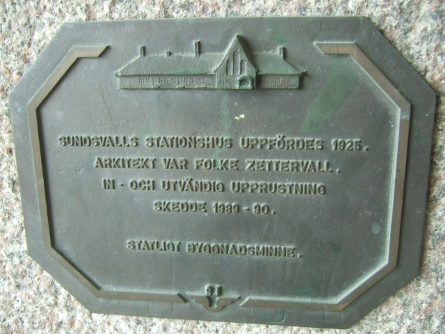 Memorial plaque at main street entrance of the station building of "Sundsvalls centralstation" at Landsvägsallén 6 in Sundsvall. Text translates to "The Station building of Sundsvall was built in 1925. Architect was Folke Zettervall. Interior and exterior improvement occurred 1989 - 90. Listed building."